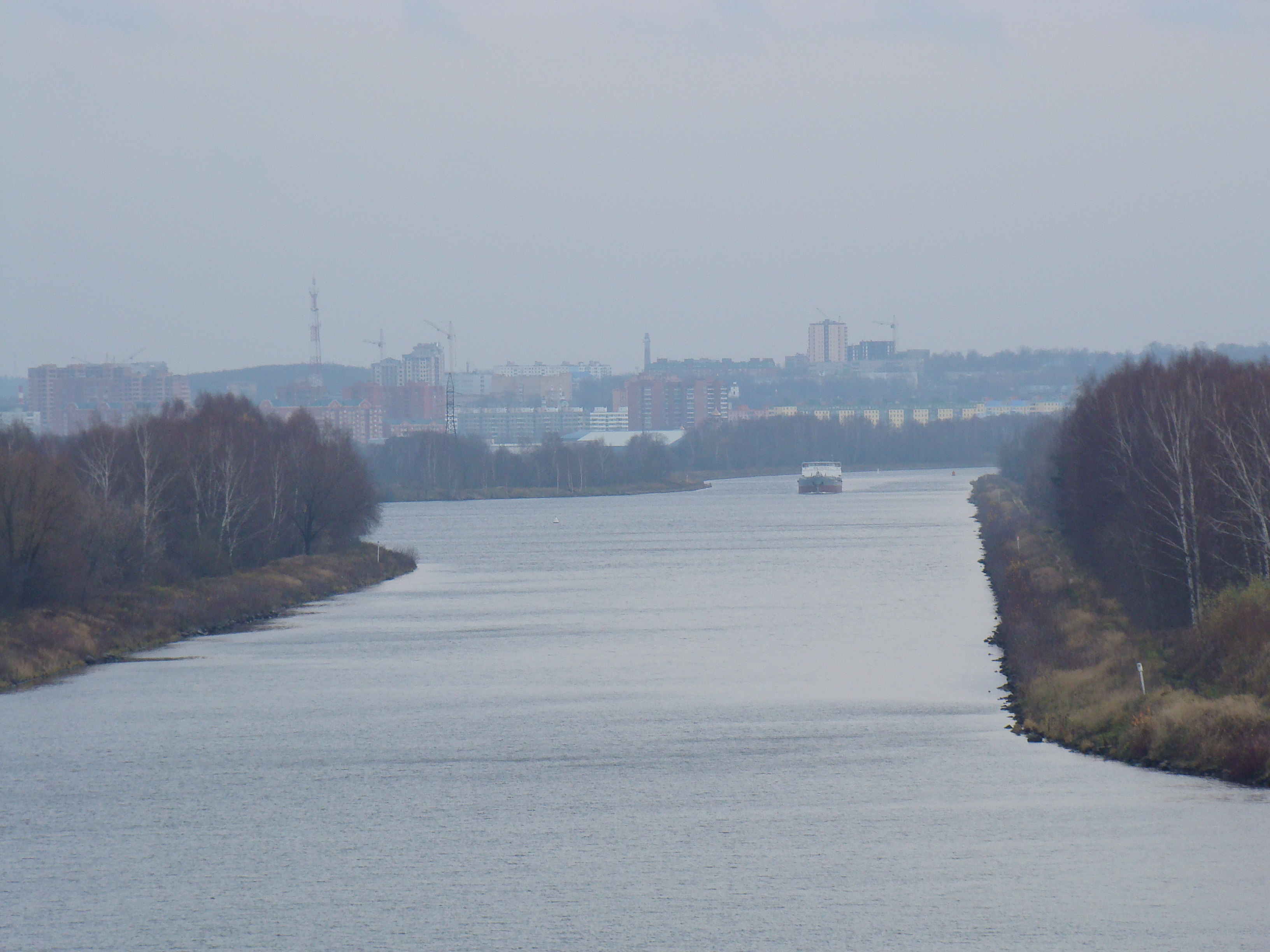 Moscow-Volga canal view